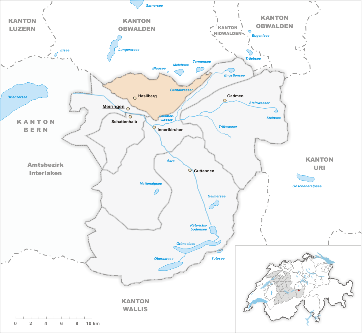 Municipality Hasliberg